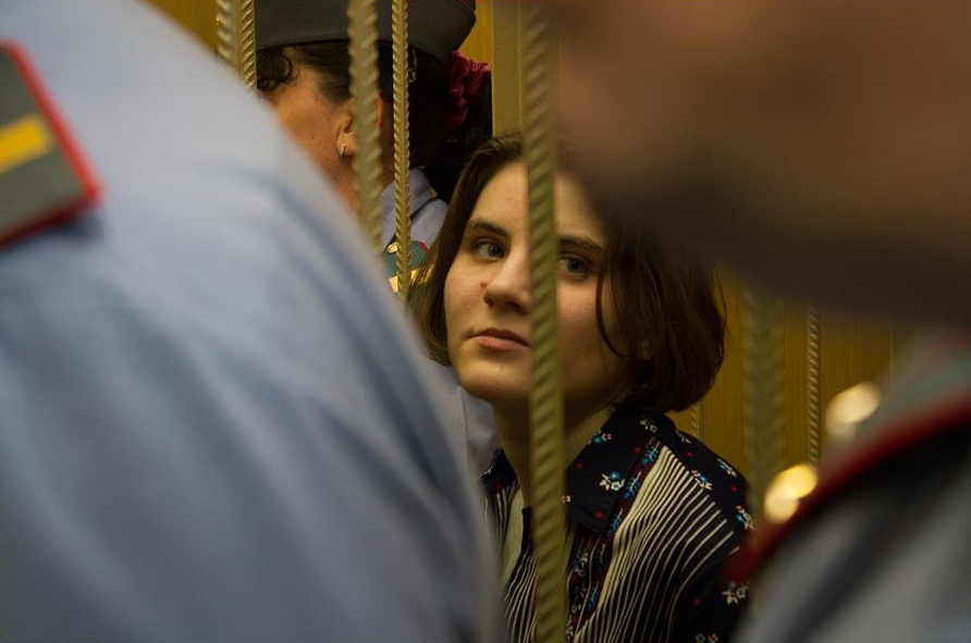 Yekaterina Samutsevich (Pussy Riot) at the Moscow Tagansky District Court - Denis Bochkarev.